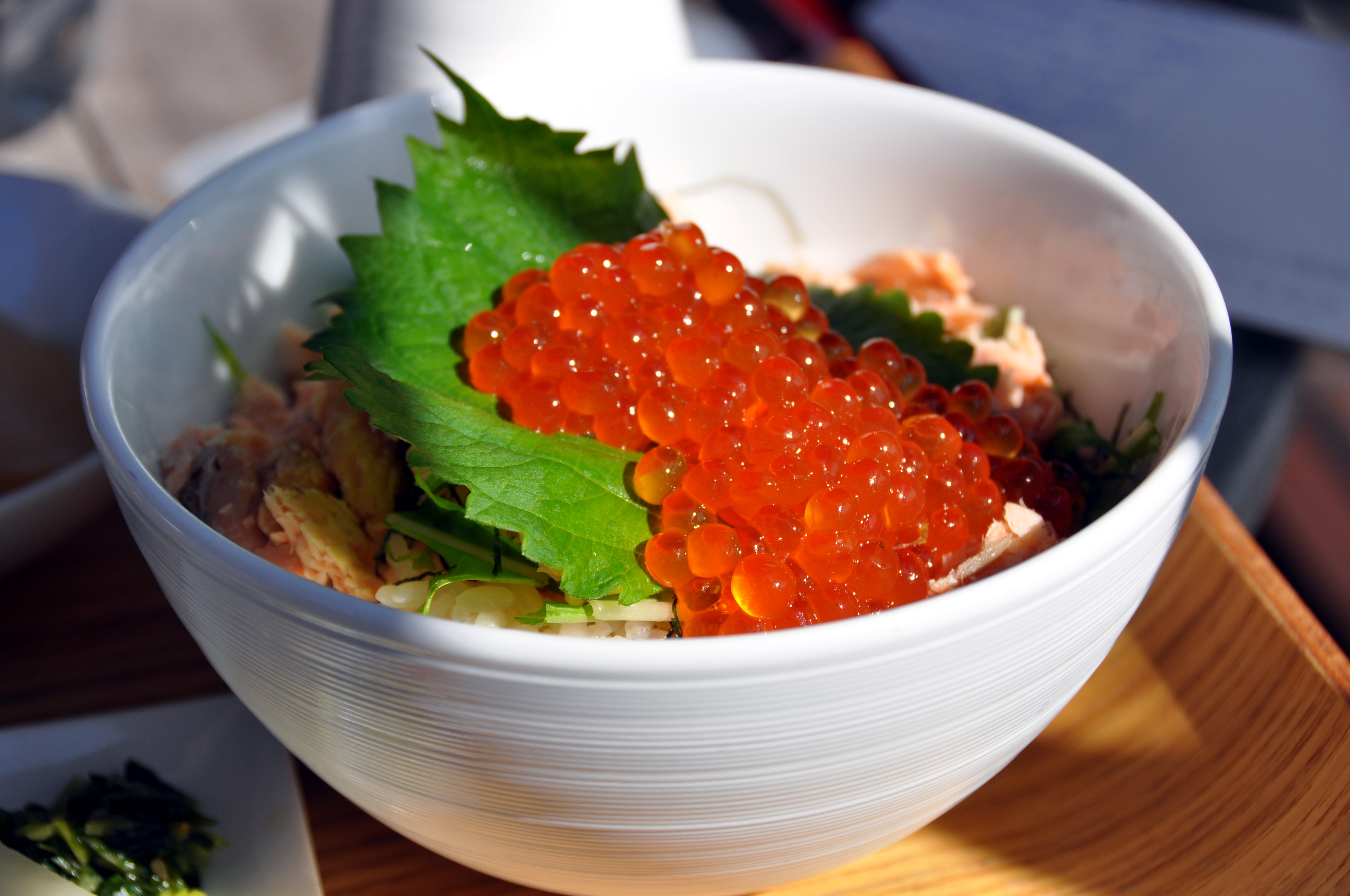 Ris med laks og lakserogn (Rice with salmon and salmon roe)